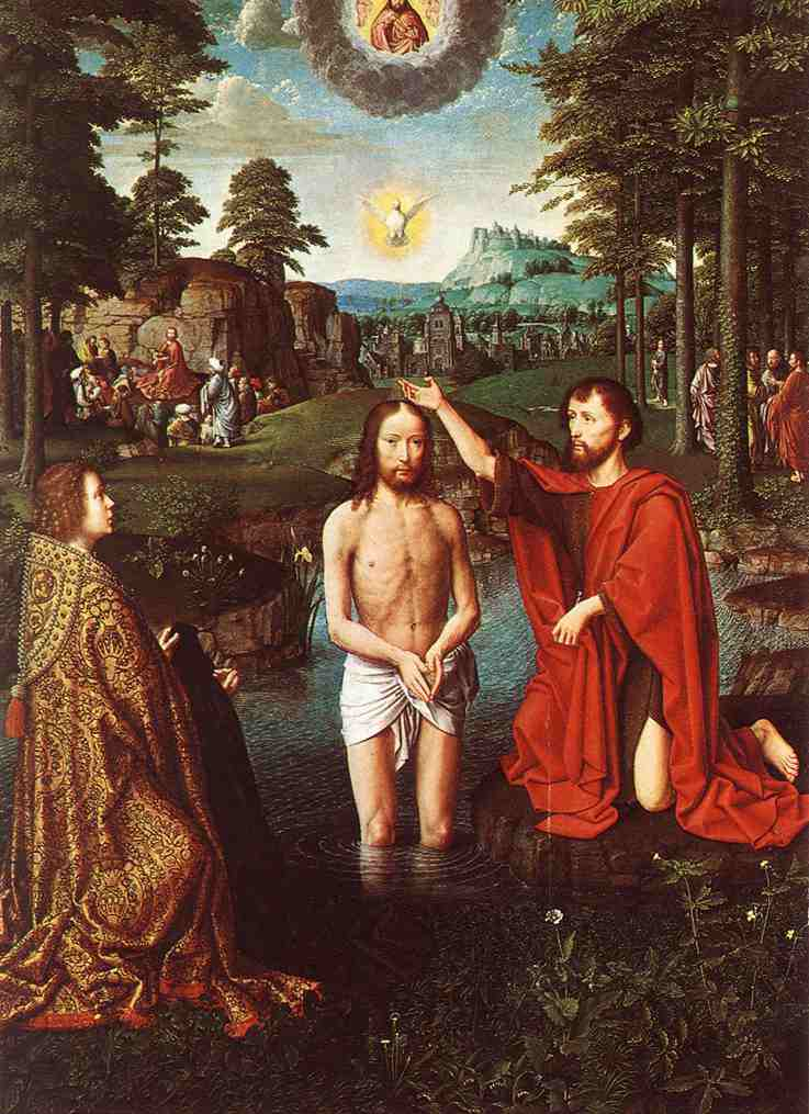 Triptych of Jean Des Trompes (Central panel - detail) Oil on wood, 127,9 x 96,6 cm Groeninge Museum, Bruges